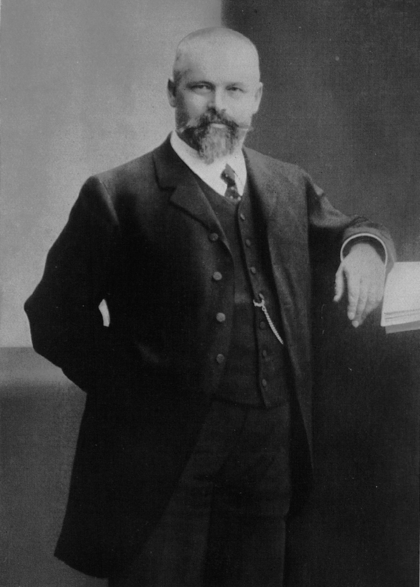 J. R. Losenhausen Maschinenfabrikant, geb. 2.2.1852 Gerresheim bei Düsseldorf; gest. 11.7.1919 Gut Breitenbend bei Linnich, Portrait-Photographie.jpg